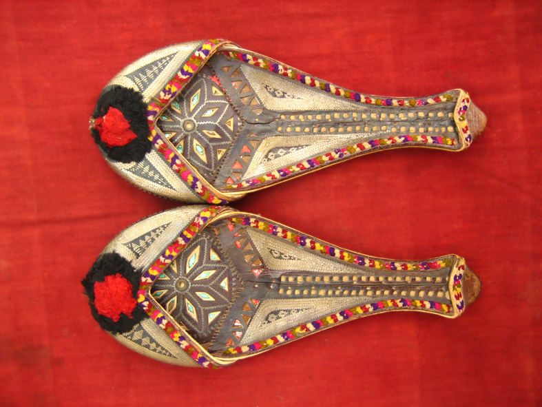 A pair of shoes in the Sindhi tradition from North East Kutch District, Gujarat, India. Approximately 80 years old, for wearing at weddings. Silver wire on leather. From the textile collection of Mr. Wazir, Bhuj.